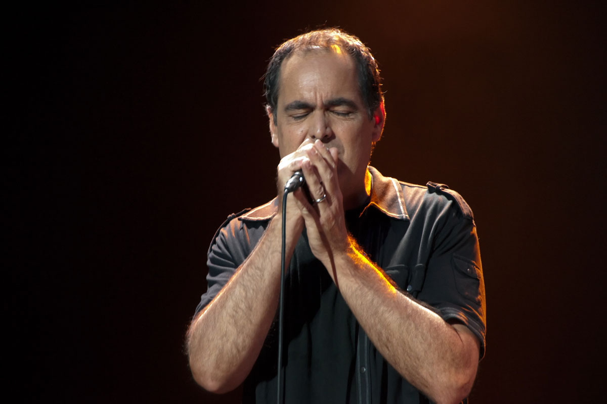 Neal Morse singing with Flying Colors, 013, TIlburg (sep. 20., 2012).